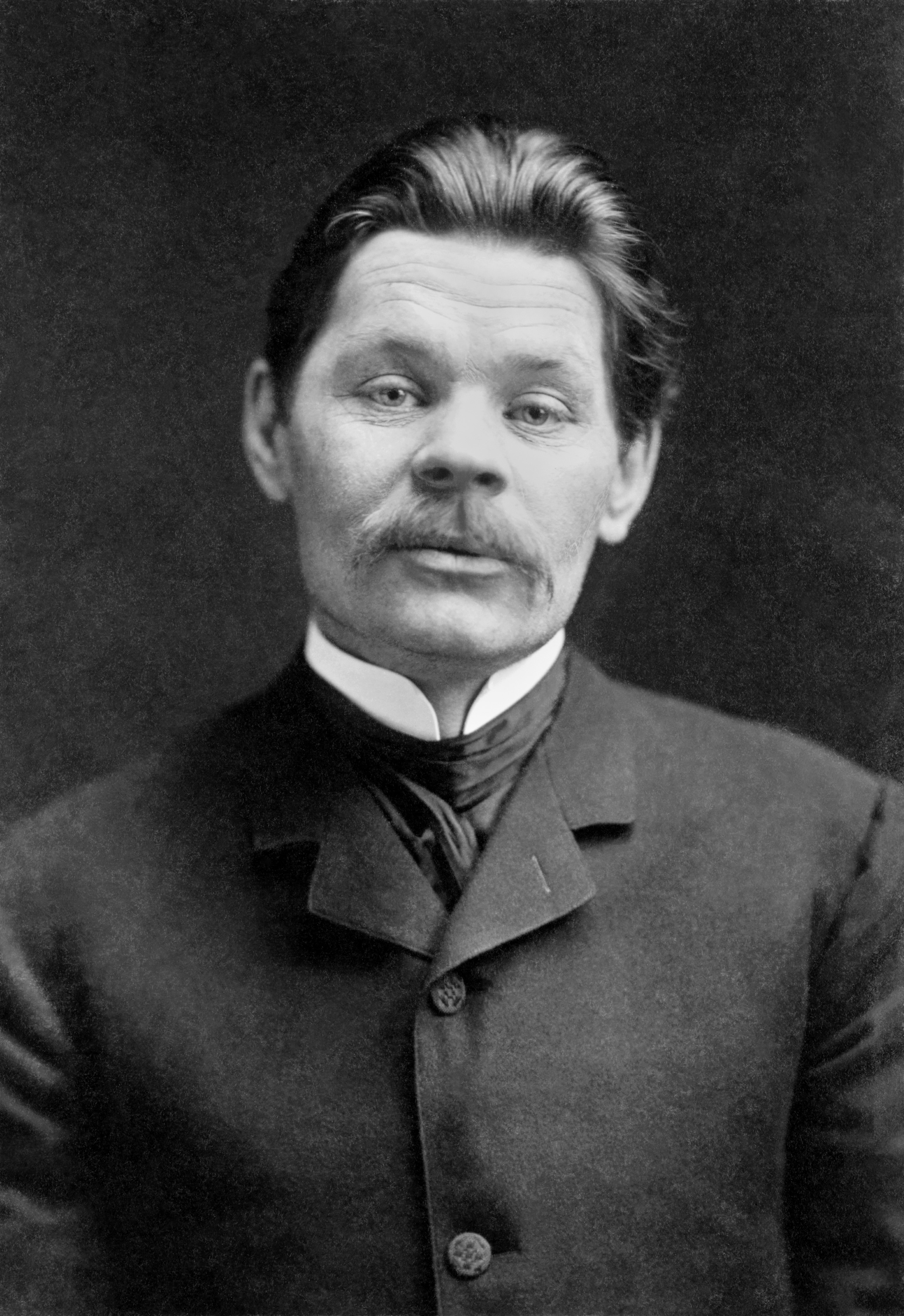 Black and white film copy negative of Maxim Gorky, half-length portrait, facing front by Herman Mishkin, N.Y.